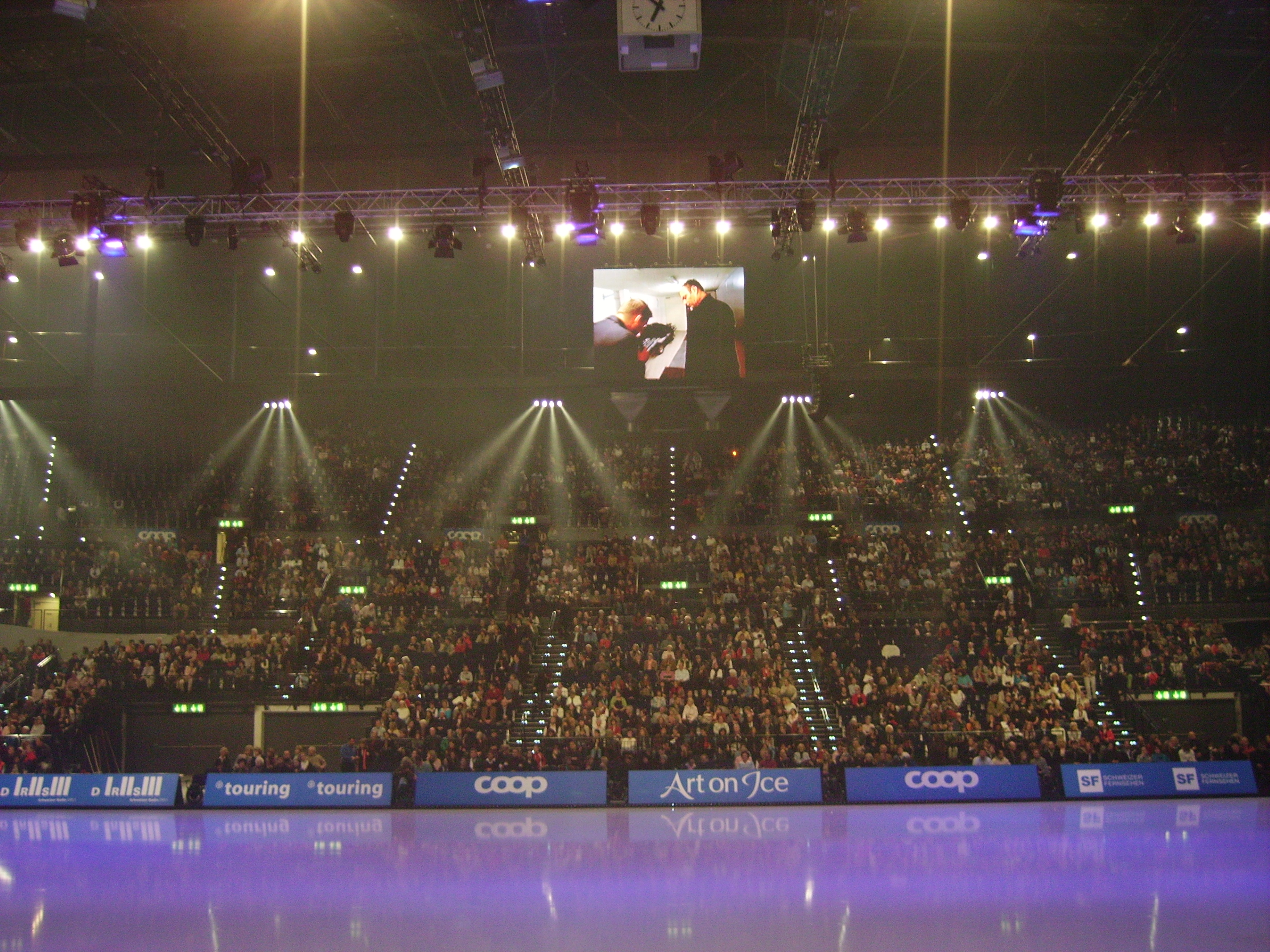 Art on Ice